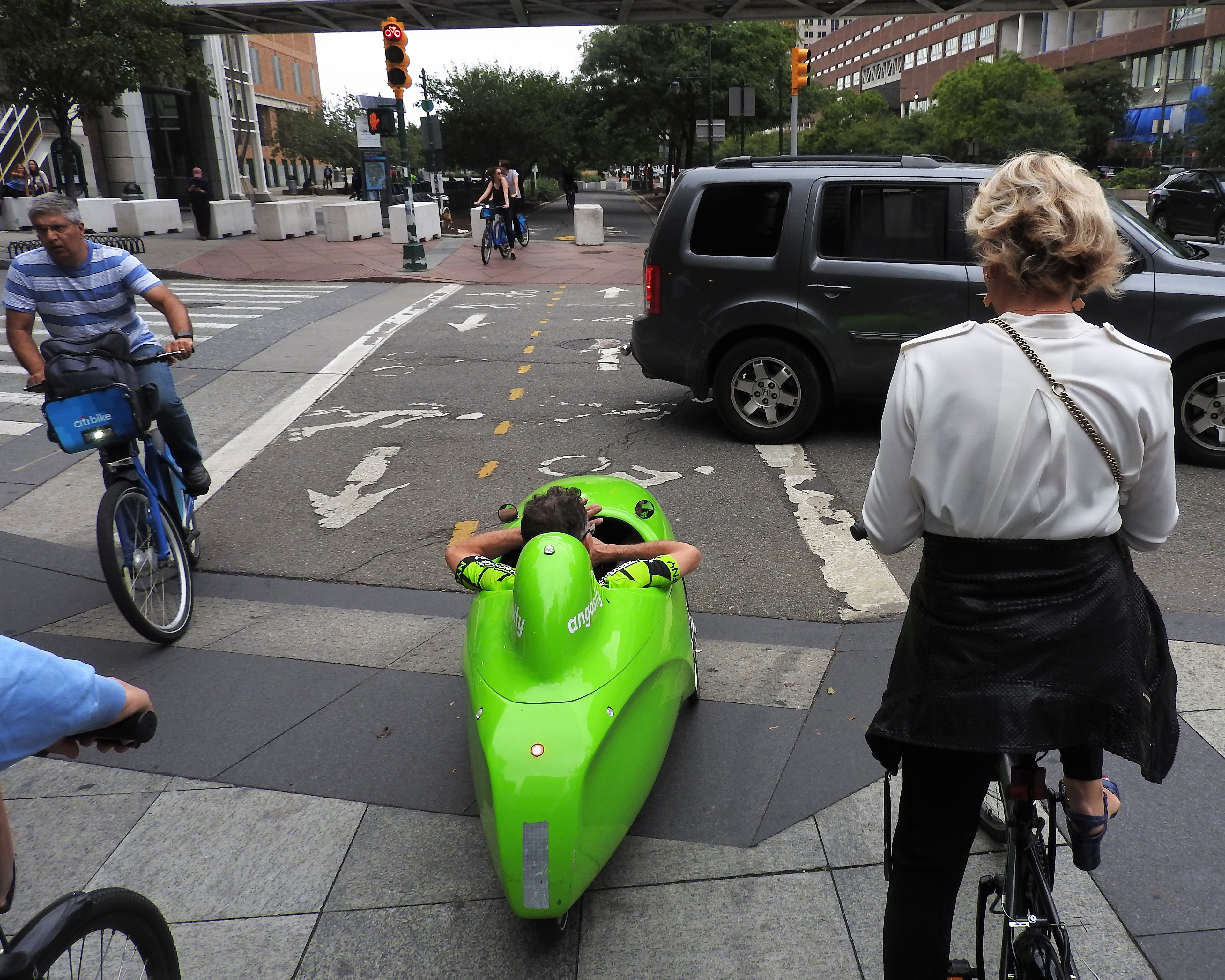 Looking north as a green pedal car on the Hudson River Greenway waits to cross Canal Street on a mostly cloudy late day.